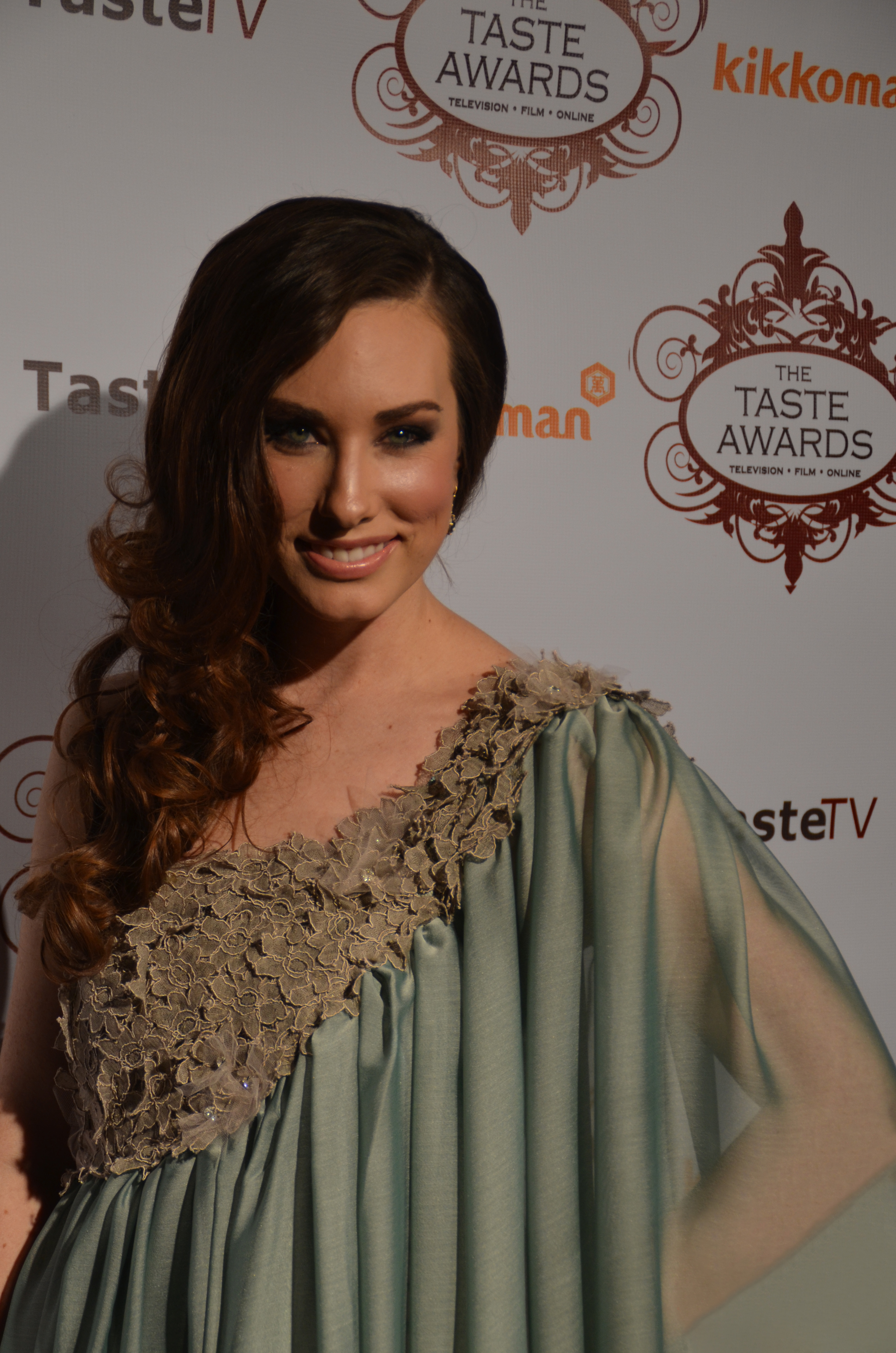 Lauren Elaine at the 6th Annual Taste Awards honoring the best in food and wine at the Egyptian Theater in Hollywood.